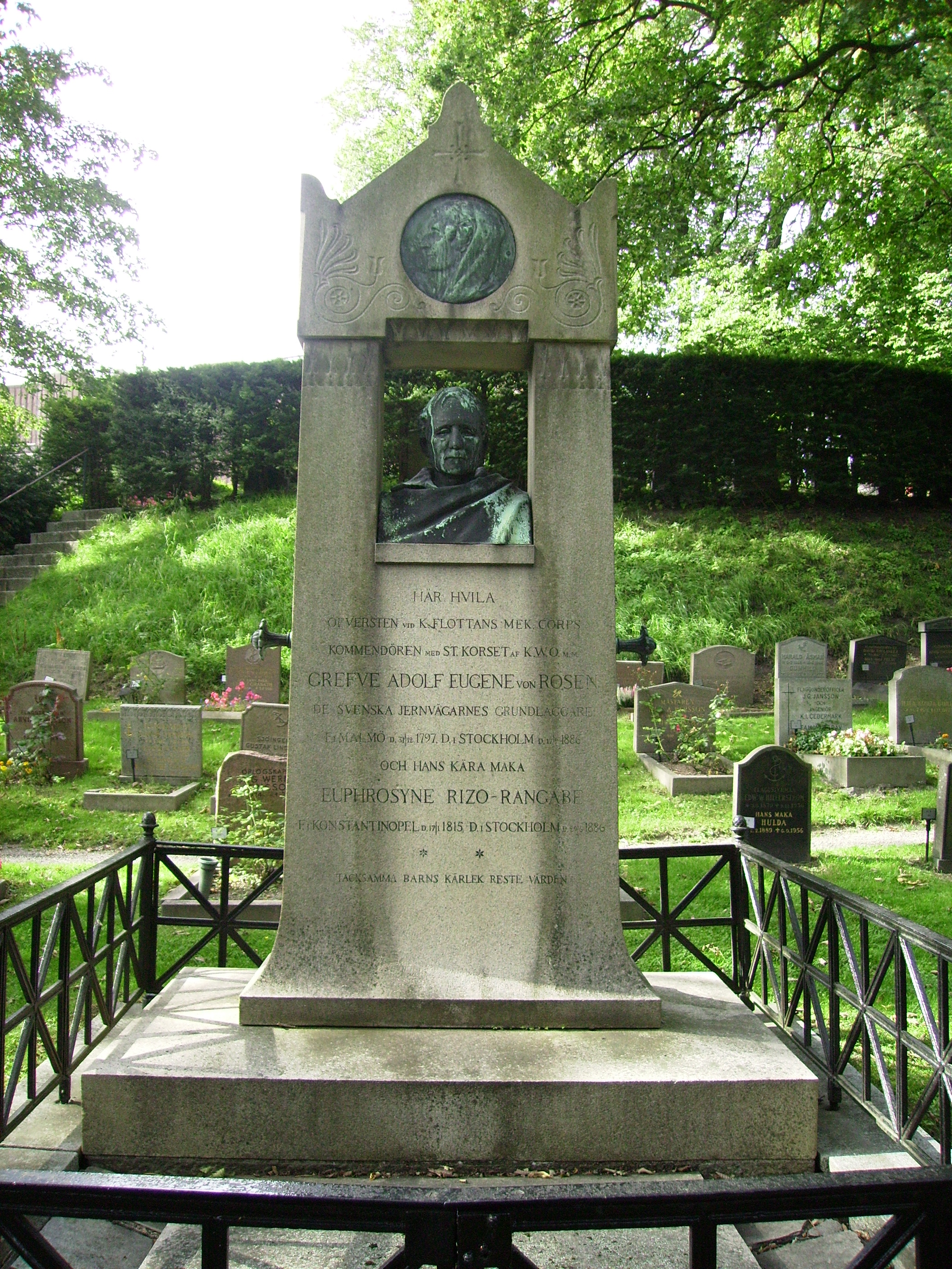 Picture of Adolf Eugén von Rosen's grave at Galärvarvets kyrkogård in Stockholm